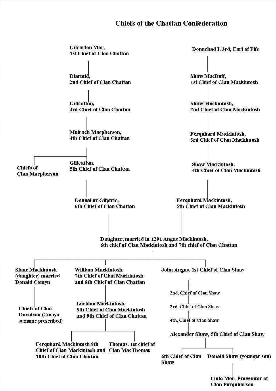 Family tree showing ancestry of the related chiefs of the Chattan Confederation